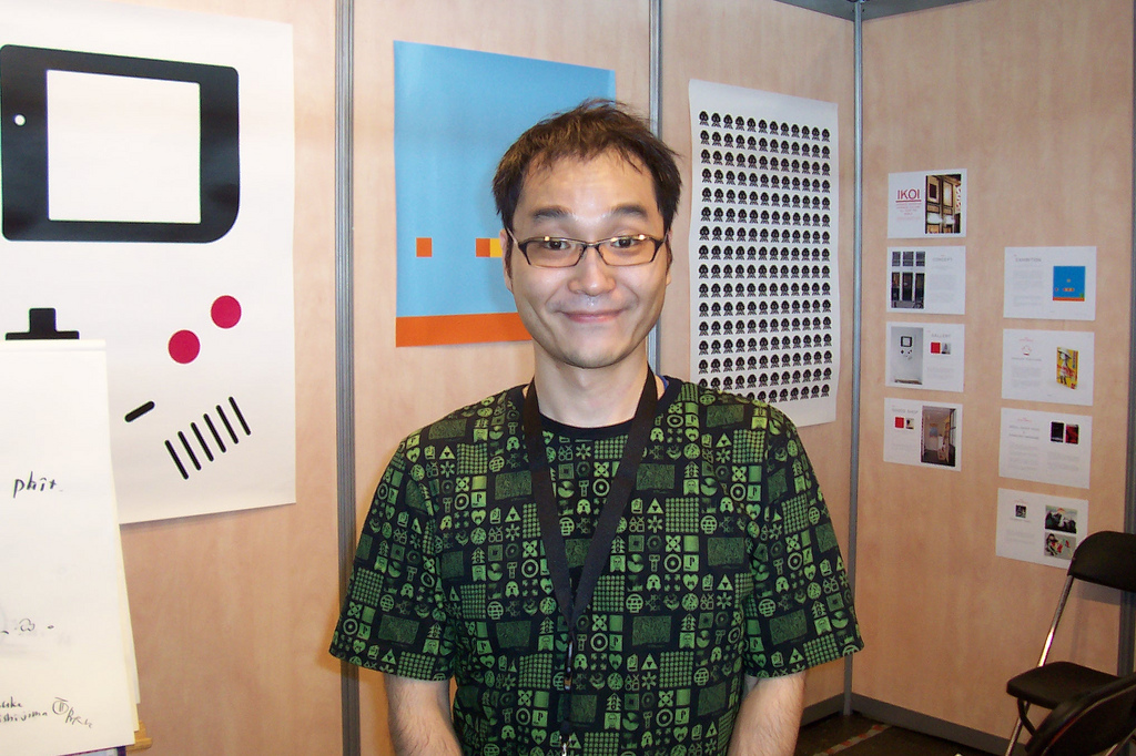 Dai Sato at Japan Expo 2009 in France.